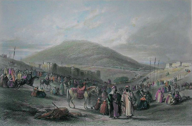 Khan al-Tujjar (Mount Tabor)